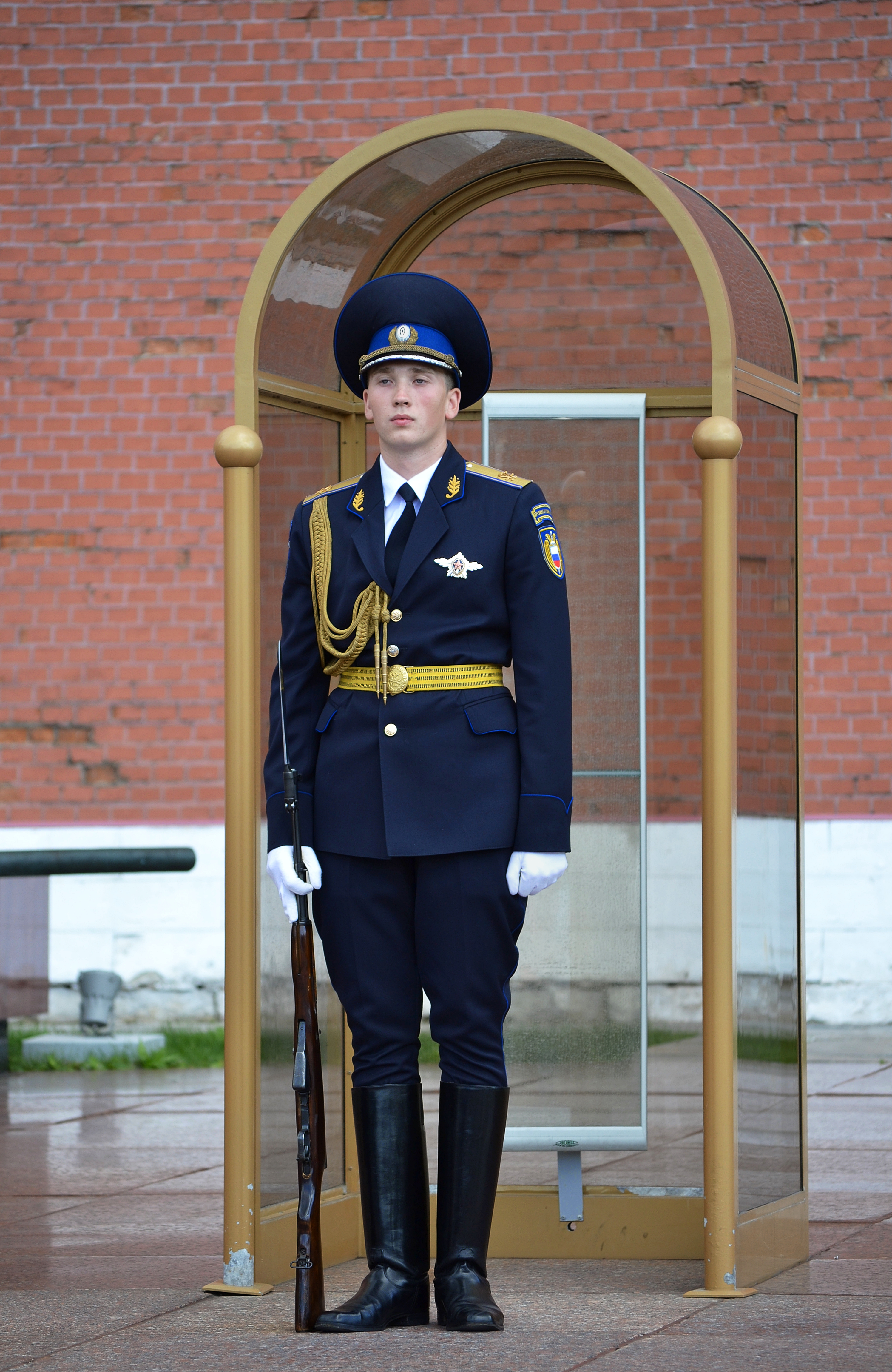 A private of the Kremlin Regiment at the Tomb of the Unknown Soldier in Moscow, Russia. The sentry is equipped with a SKS Carbine.